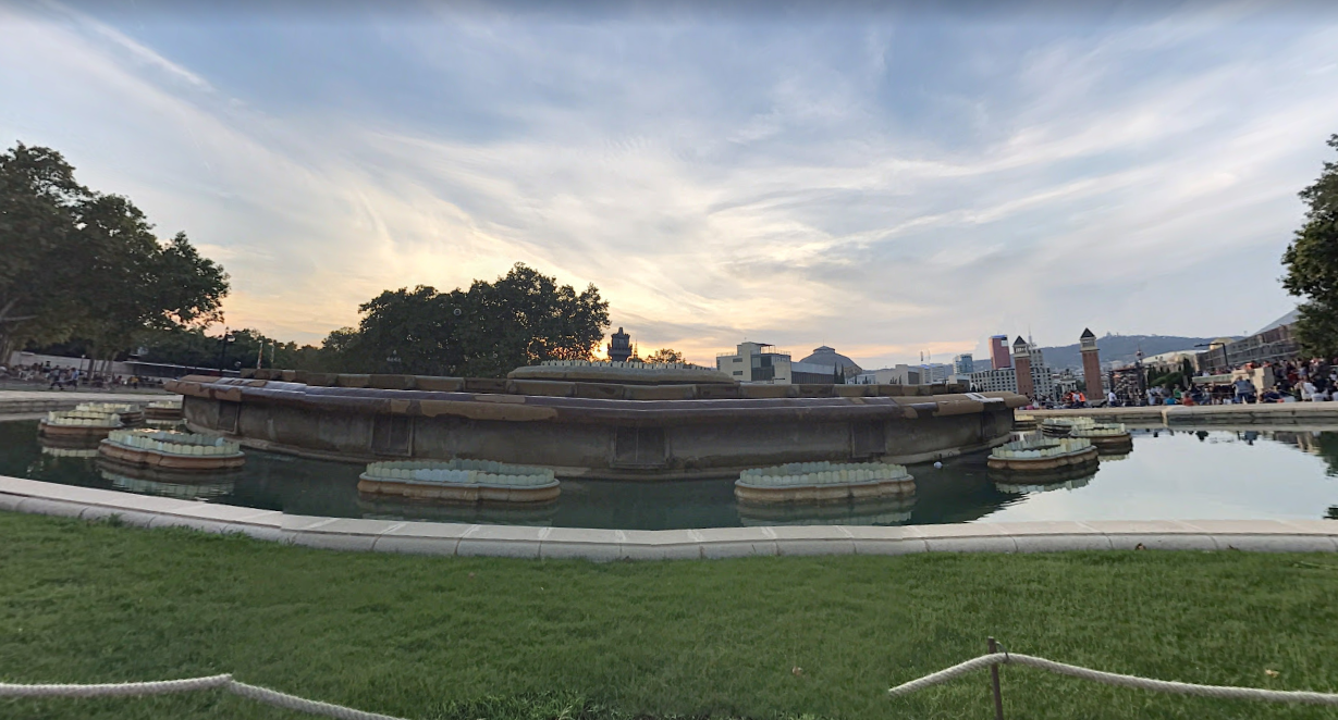 Afternoon photo shoot of the magic fountain